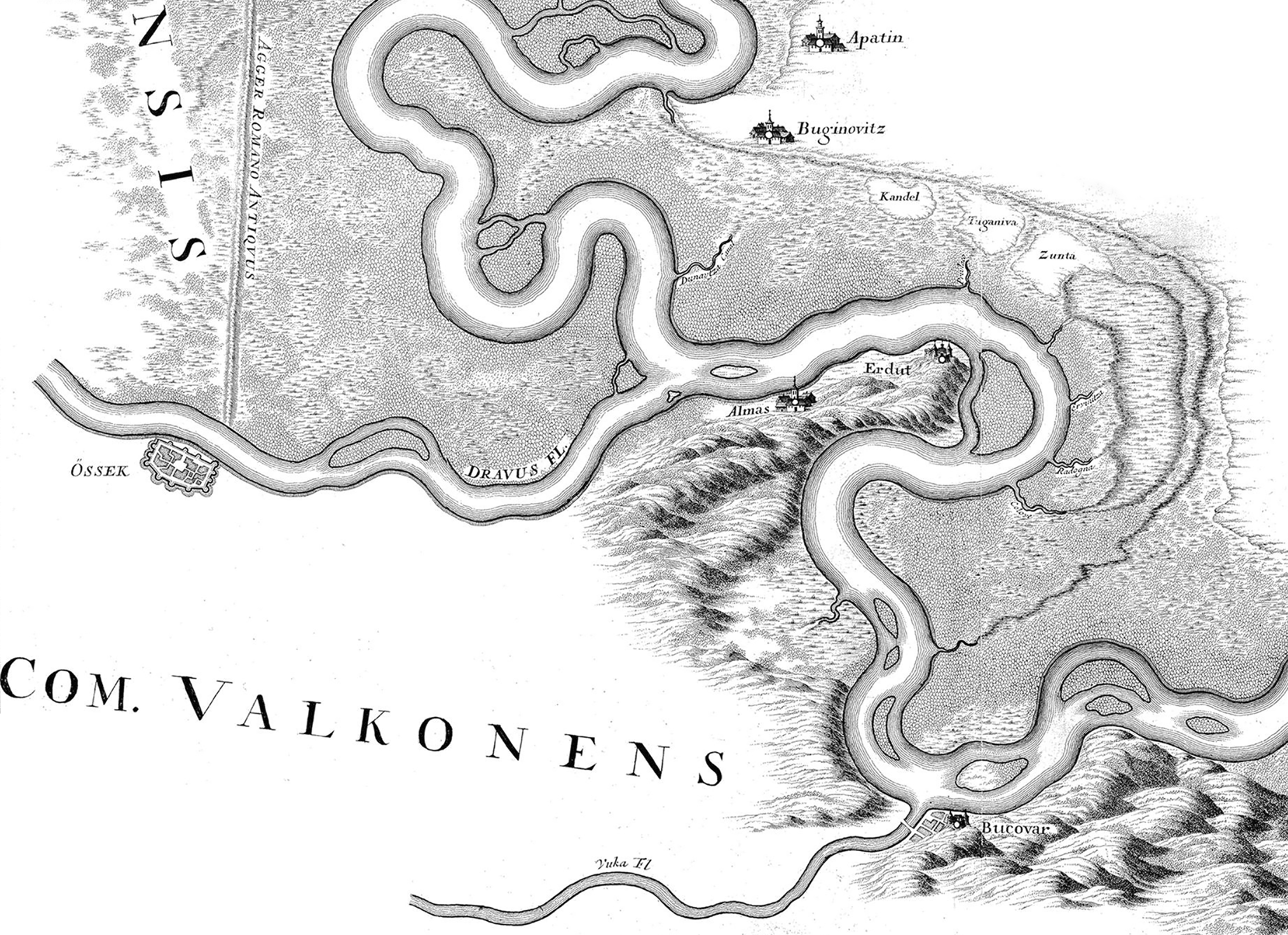 1726 work by the Italian naturalist and soldier Luigi Ferdinando Marsigli (1658 – 1730). It is a natural history encyclopedia of the lower Danube, published in 6 volumes in both The Hague and Amsterdam. The extensive work covers cartography (vol. 1), classical studies (vol. 2), mineralogy (vol. 3), fish fauna (vol. 4), birds (vol. 5) and other subjects (vol. 6). Detailed information by volumes: Volume 1: In tres partes digestus geographicam, astronomicam, hydrographicam contains geographical, astronomical and hydrographical data related to the Danube. Volume 2: De antiquitatibus Romanorum ad ripas Danubii covers Ancient Roman remains by the Danube. Volume 3: De mineralibus circa Danubium effossis reviews minerals in the Danube area. Volume 4: De piscibus in aquis Danubii viventibus discusses the fish of the Danube. Volume 5: De avibus circa aquas Danubii vagantibus, et ipsarum nidis catalogs the birds Marsigli encountered along the Danube. Includes 74 plates after drawings by the Italian artist Raimondo Manzini (1658-1730), including 59 birds and 15 nests with clutches, some of the earliest illustrations of its kind in the history of ornithology Volume 6: De fontibus Danubii. Observationes anatomicae. De Aquis Danubii et Tibisci. Catalogus plantarum. Observationes habitae cum barometris et thermometris. De Insectis covers the springs of the Danube, anatomy, plants, insections and observations on pressure and temperature.